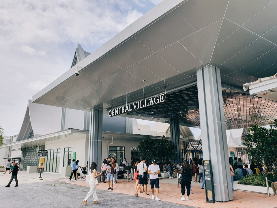 Frontview of Central Village shopping mall